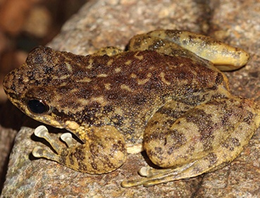 Amolops ricketti